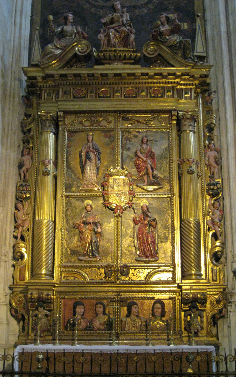 Reliquary altar on the left side of chapel. Close doors. Sculptor Alonso de Mena 1632. Capilla Real, Granada